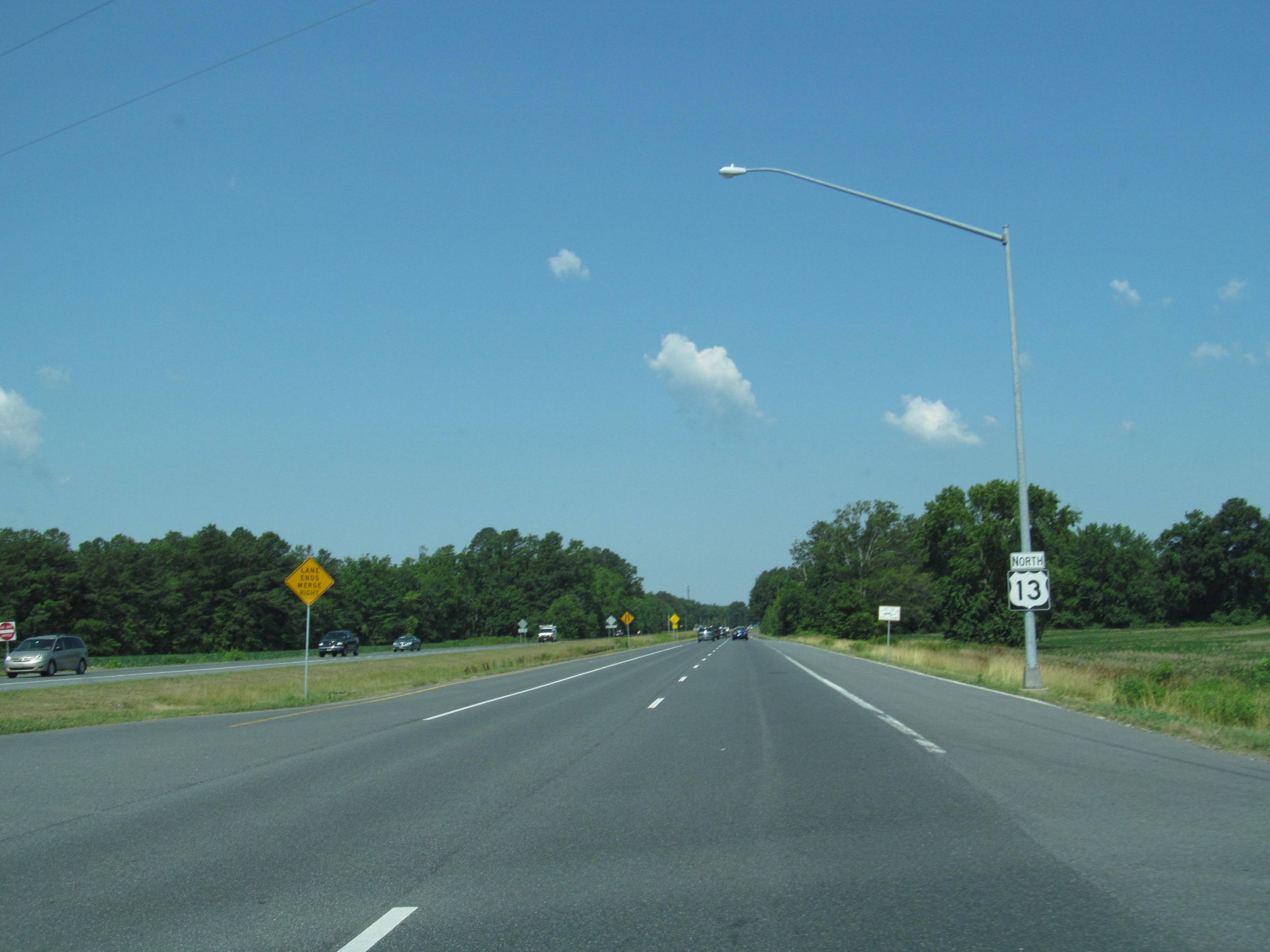 US Route 13 - Maryland